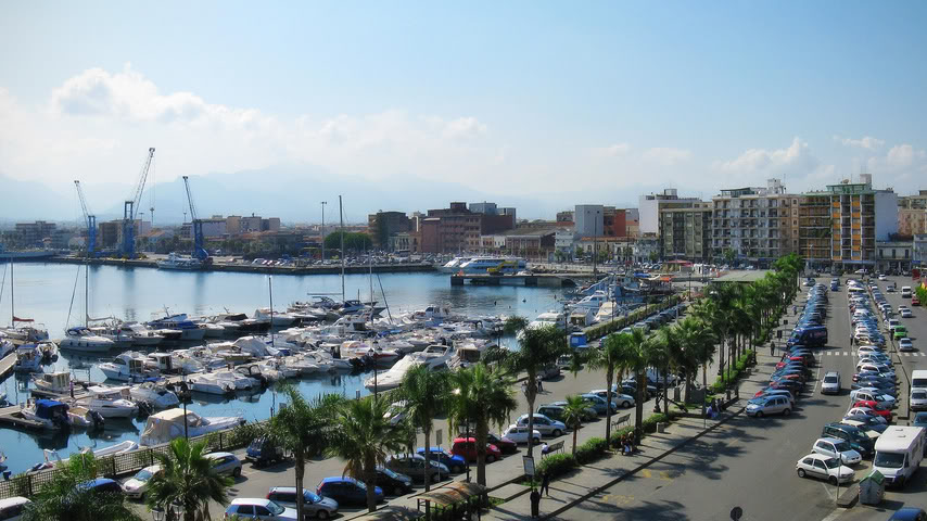 Milazzo